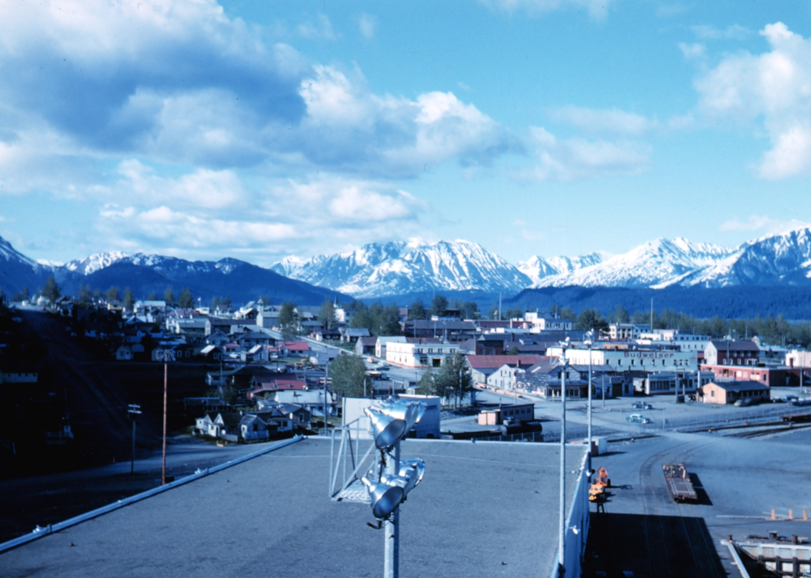 A view of Seward -- Latitude 60 06.5N; Longitude 149 26.5 W